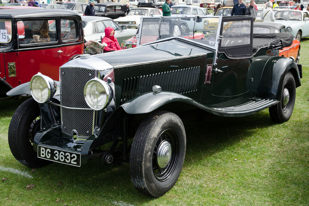 Railton Terraplane 8 (DVLA) first registered 23 August 1935, 4195 cc Llandudno Transport Festival 04/05/2013